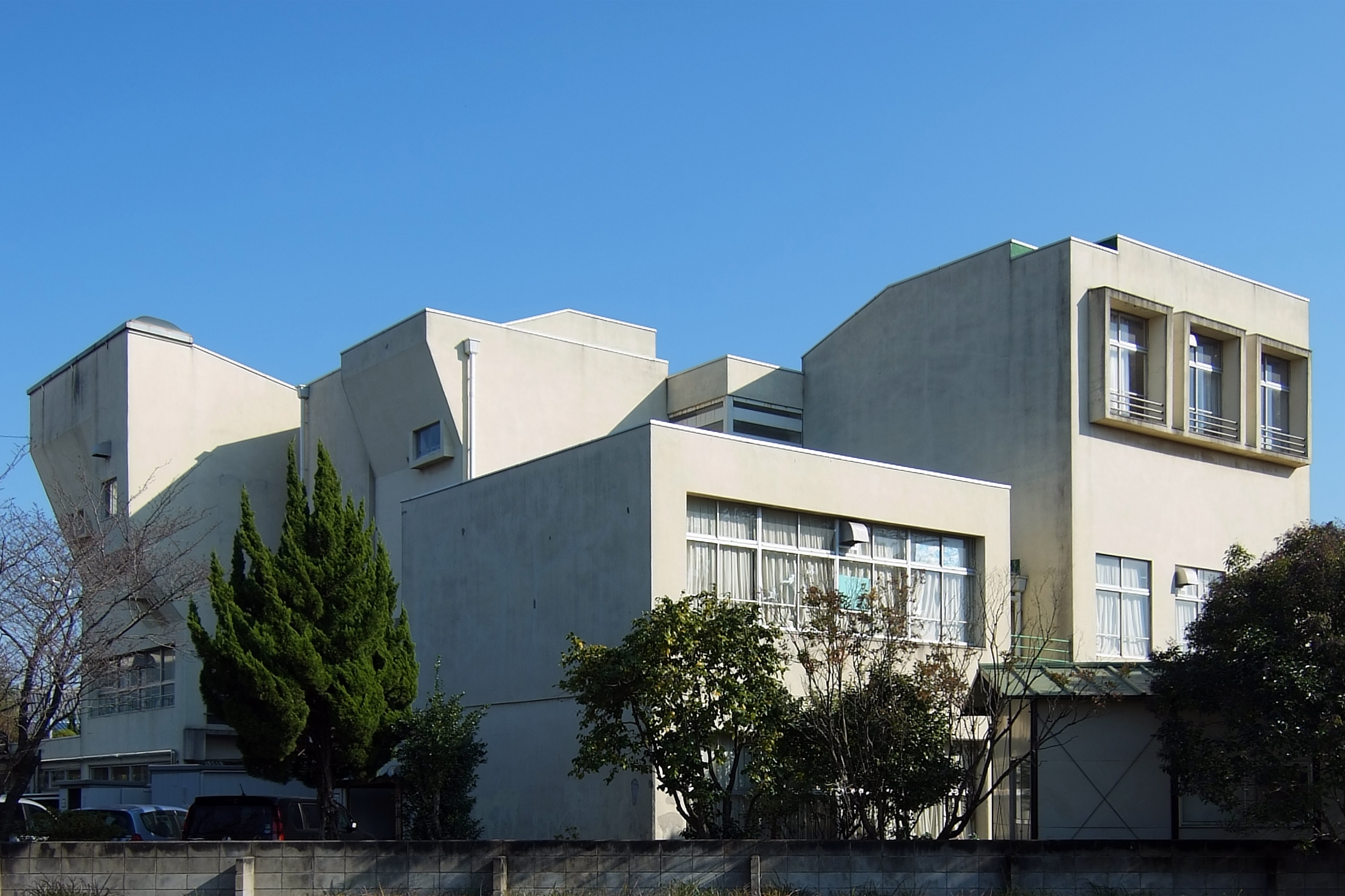 Shimoshizu Elementary school, at Sakura Chiba Japan, design by Hiroshi Hara in 1967.